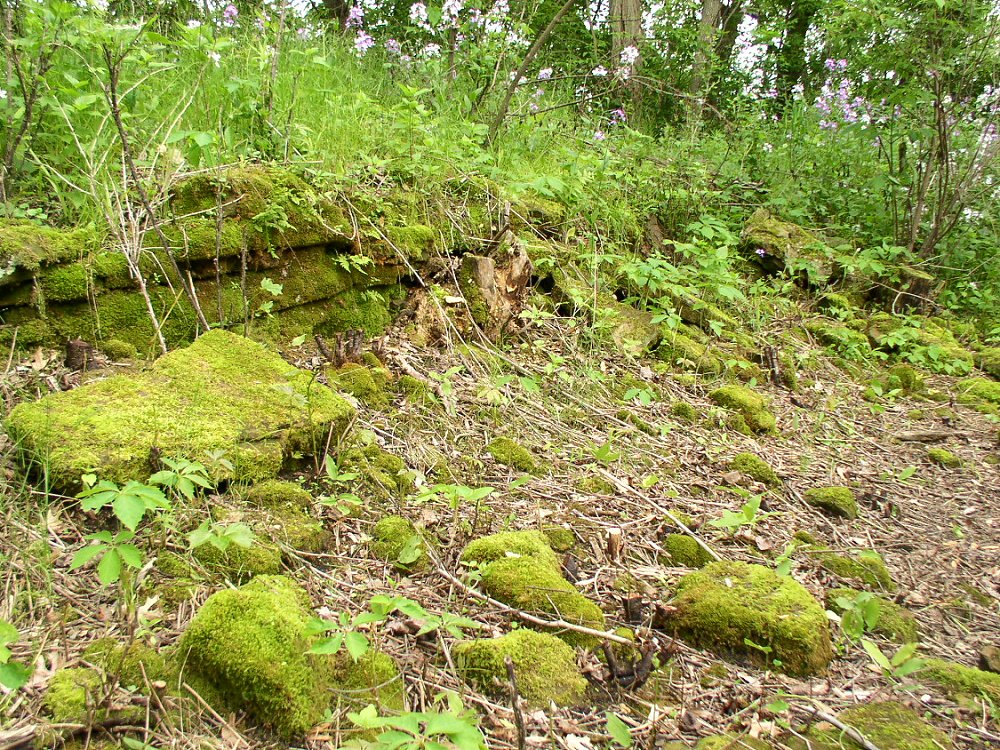 Marine Mill, Marine on St Croix, MN, USA